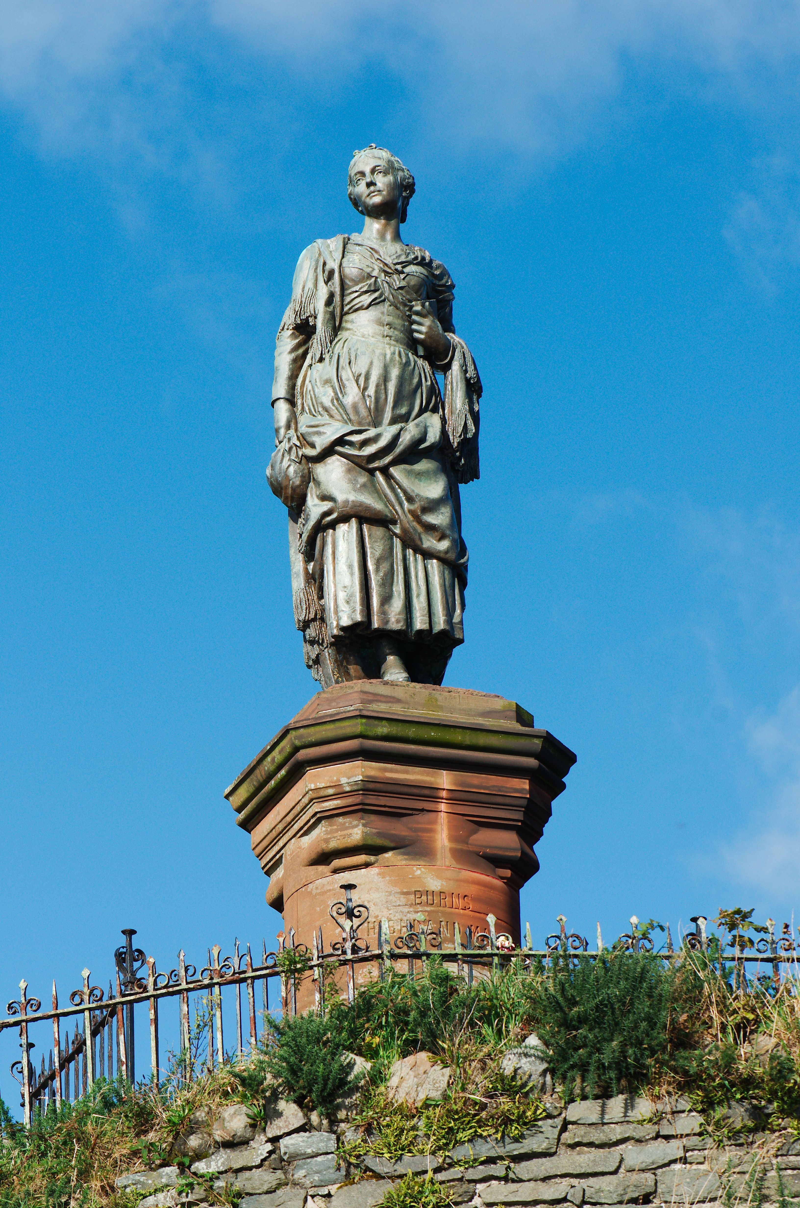 2015 October Holidays